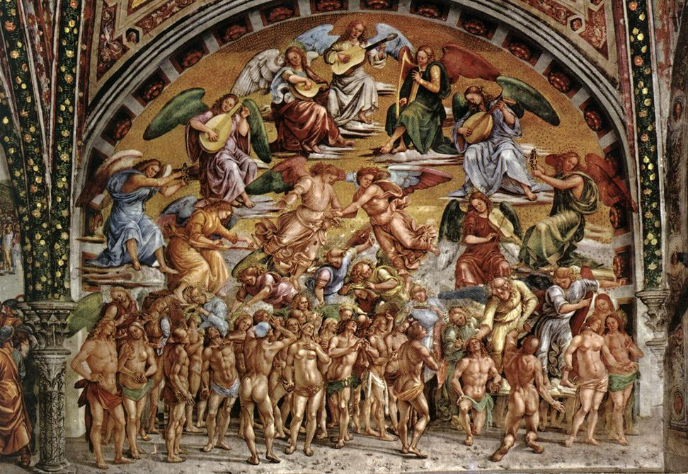 SIGNORELLI, Luca The Elect in Paradise Fresco Chapel of San Brizio, Duomo, Orvieto